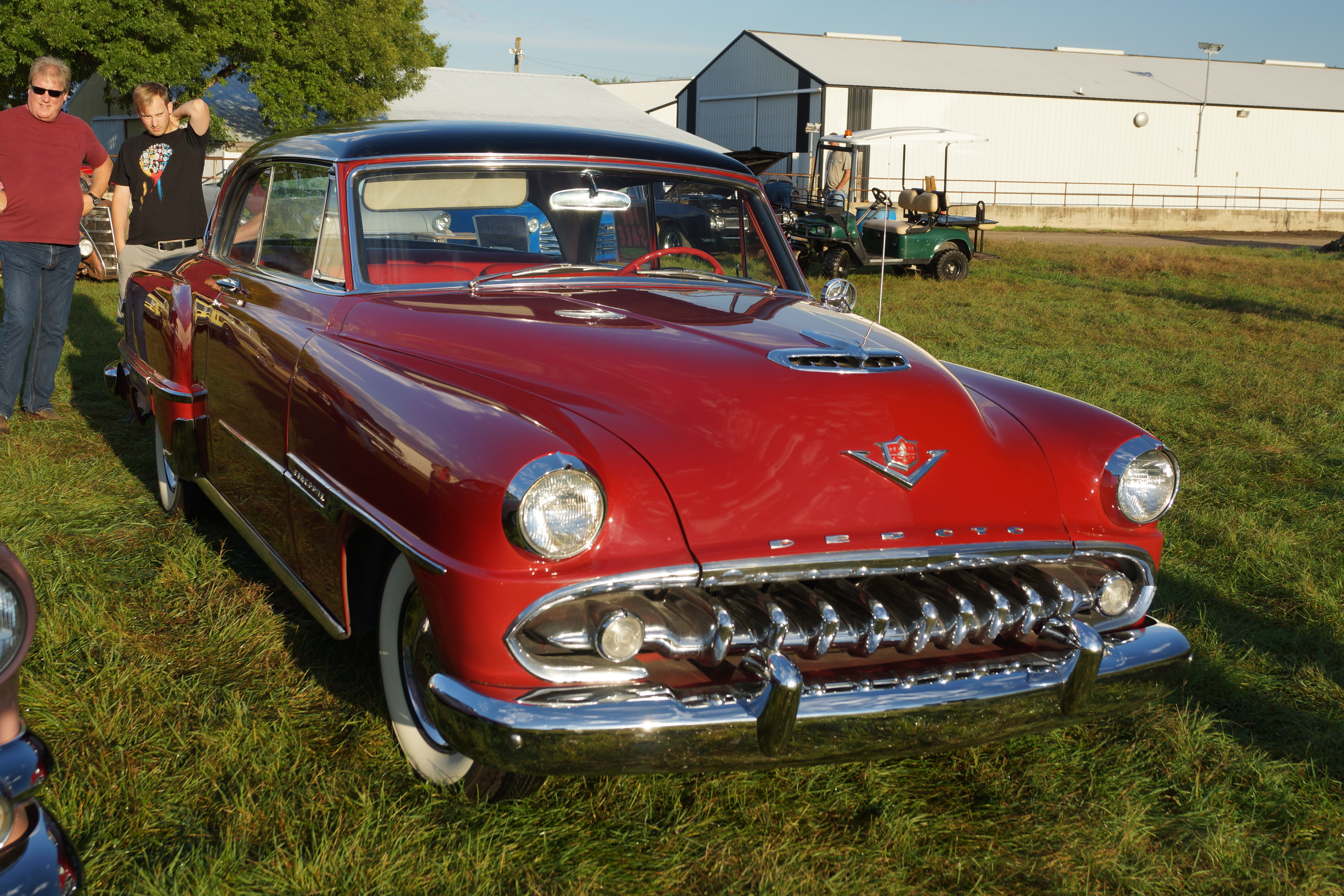 Auto Restorers Club of Southern Minnesota 40th Annual Car Show & Swap Meet Nicollet County Fairgrounds St. Peter, Minnesota September 2016 Click here for more car pictures at my Flickr site.